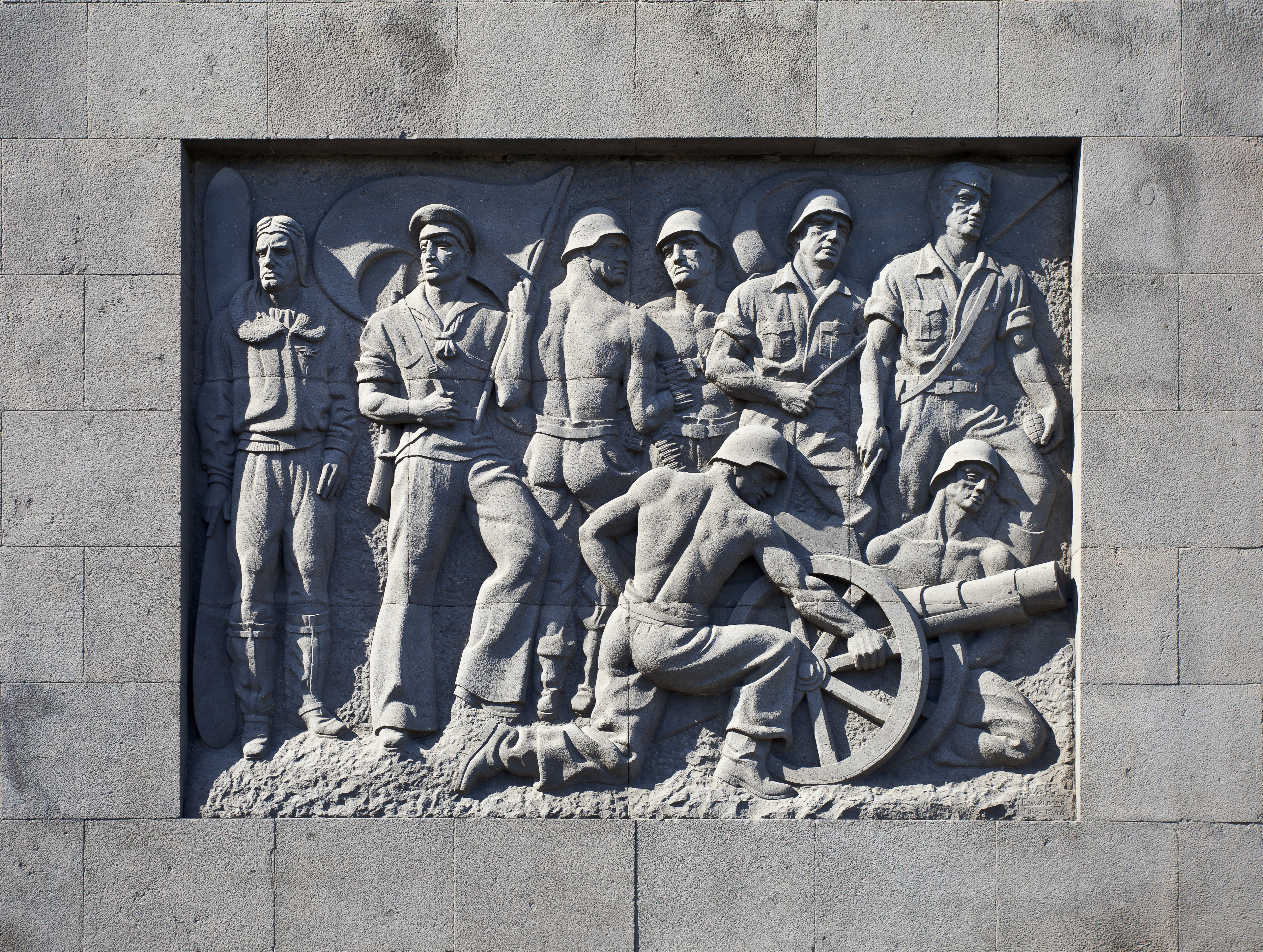 Monument to the Fallen, Santa Cruz de Tenerife, Spain